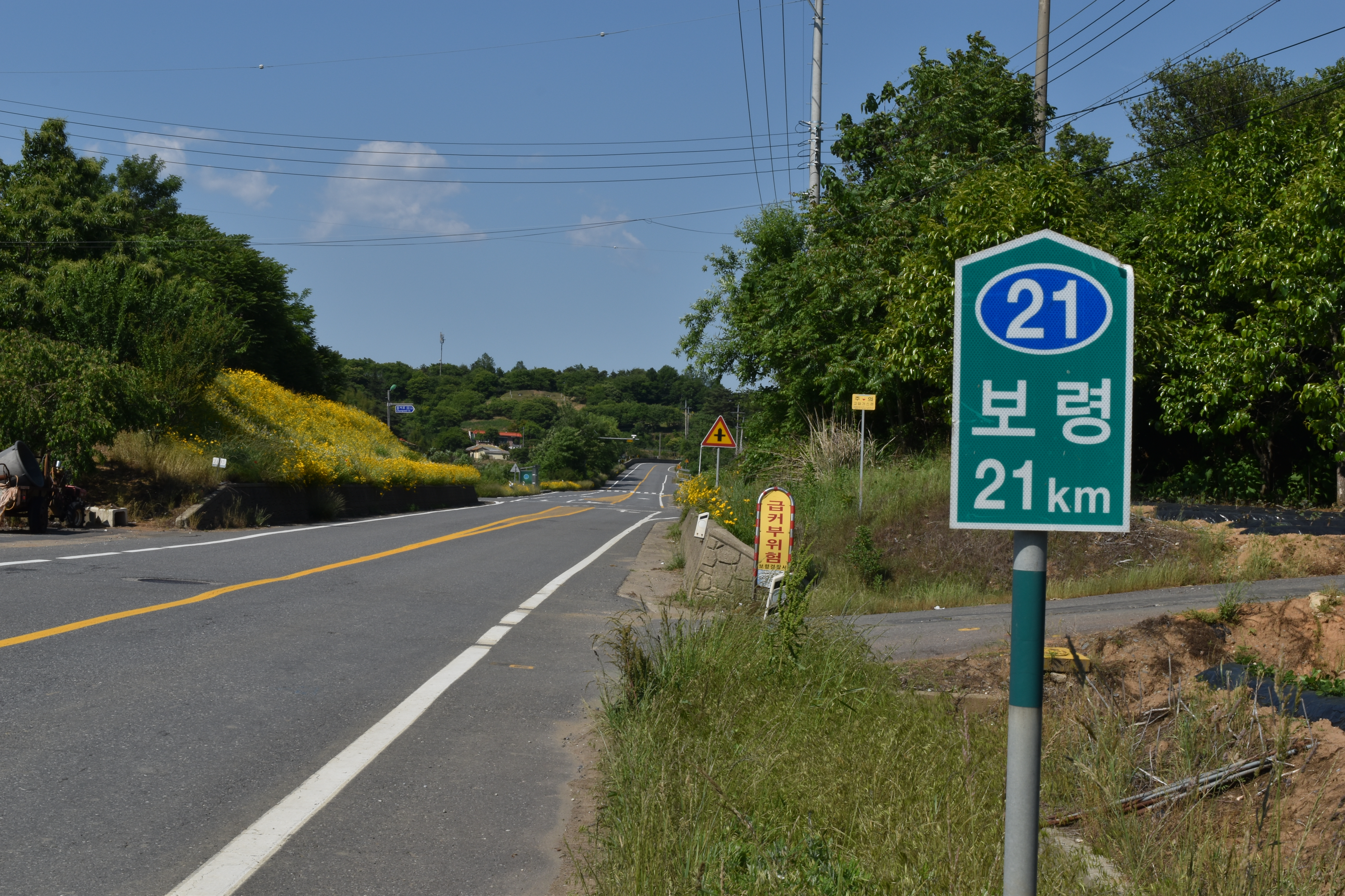 Korean National route No 21 through Boryeong